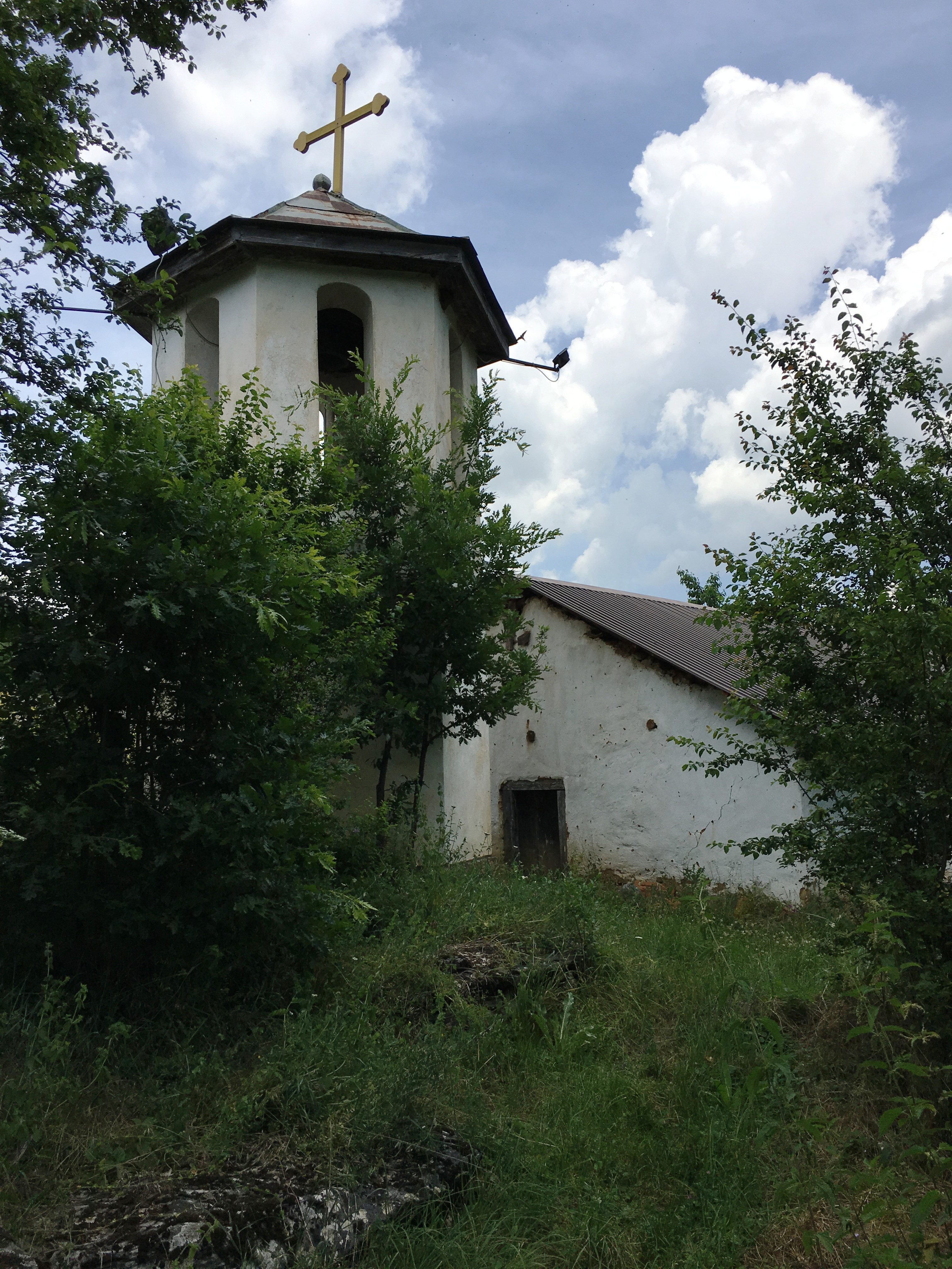 St. Nicholas Church in the village of Krapa